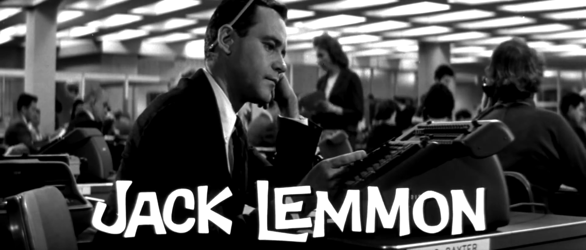 Screenshot of Jack Lemmon as C.C. Baxter in the trailer for the film The Apartment